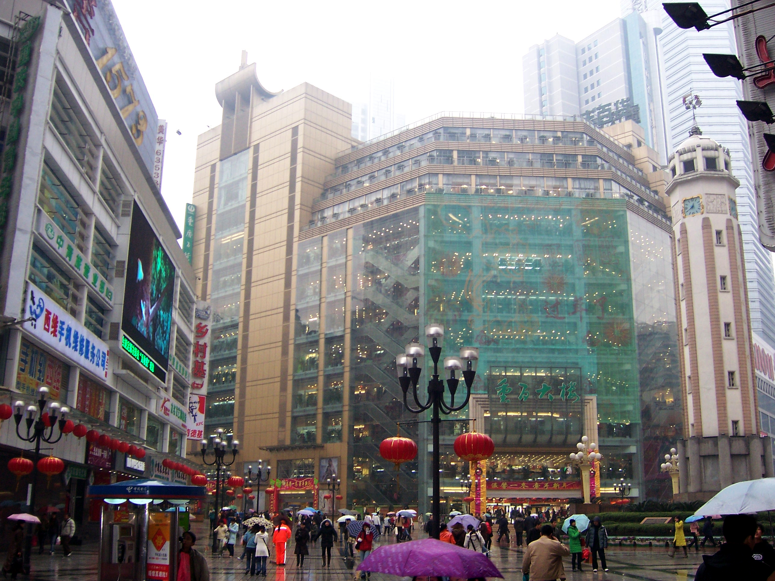 Centre of Chongqing